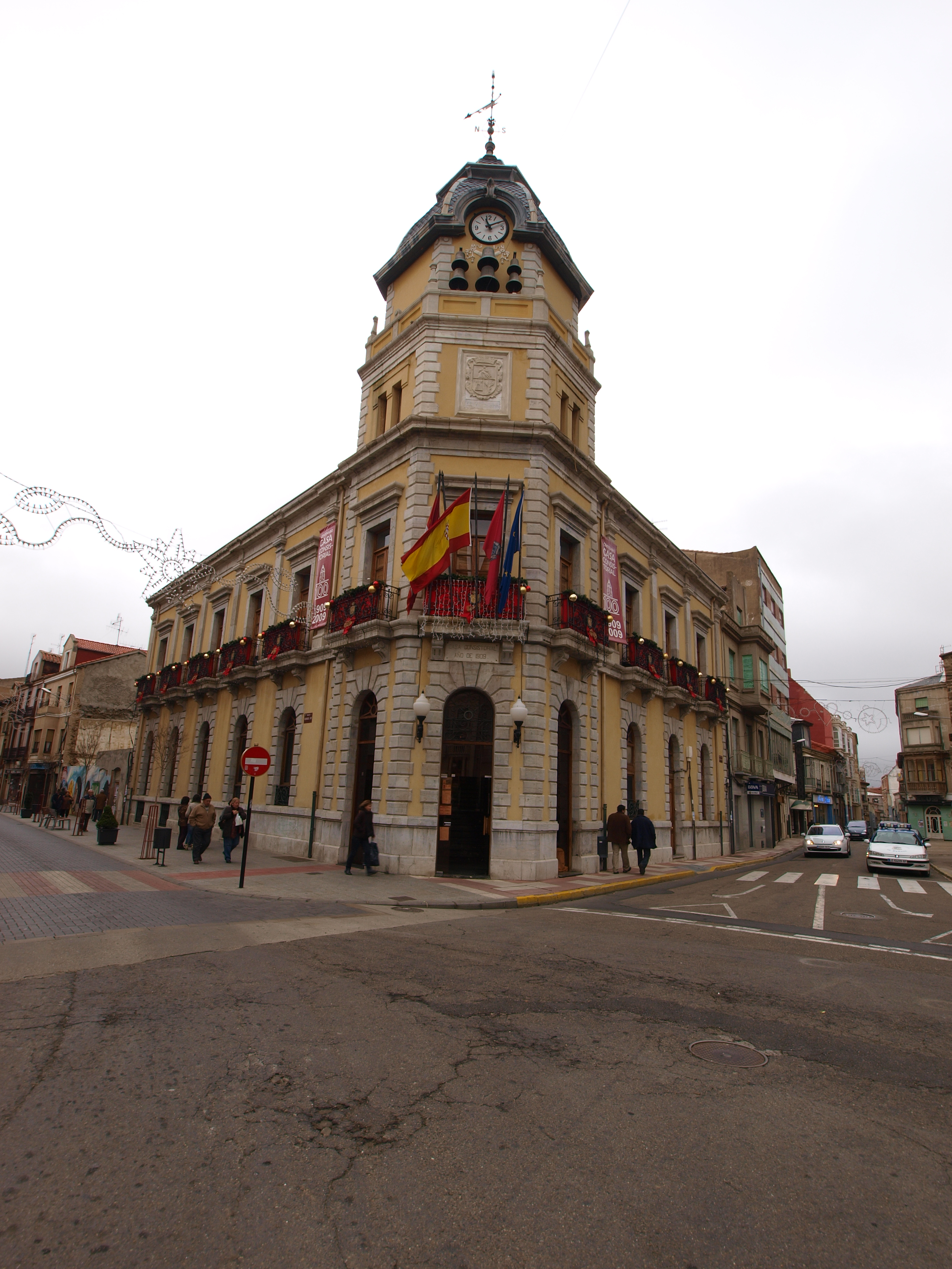 The City Hall in the spanish town of La Bañeza (Province of León)